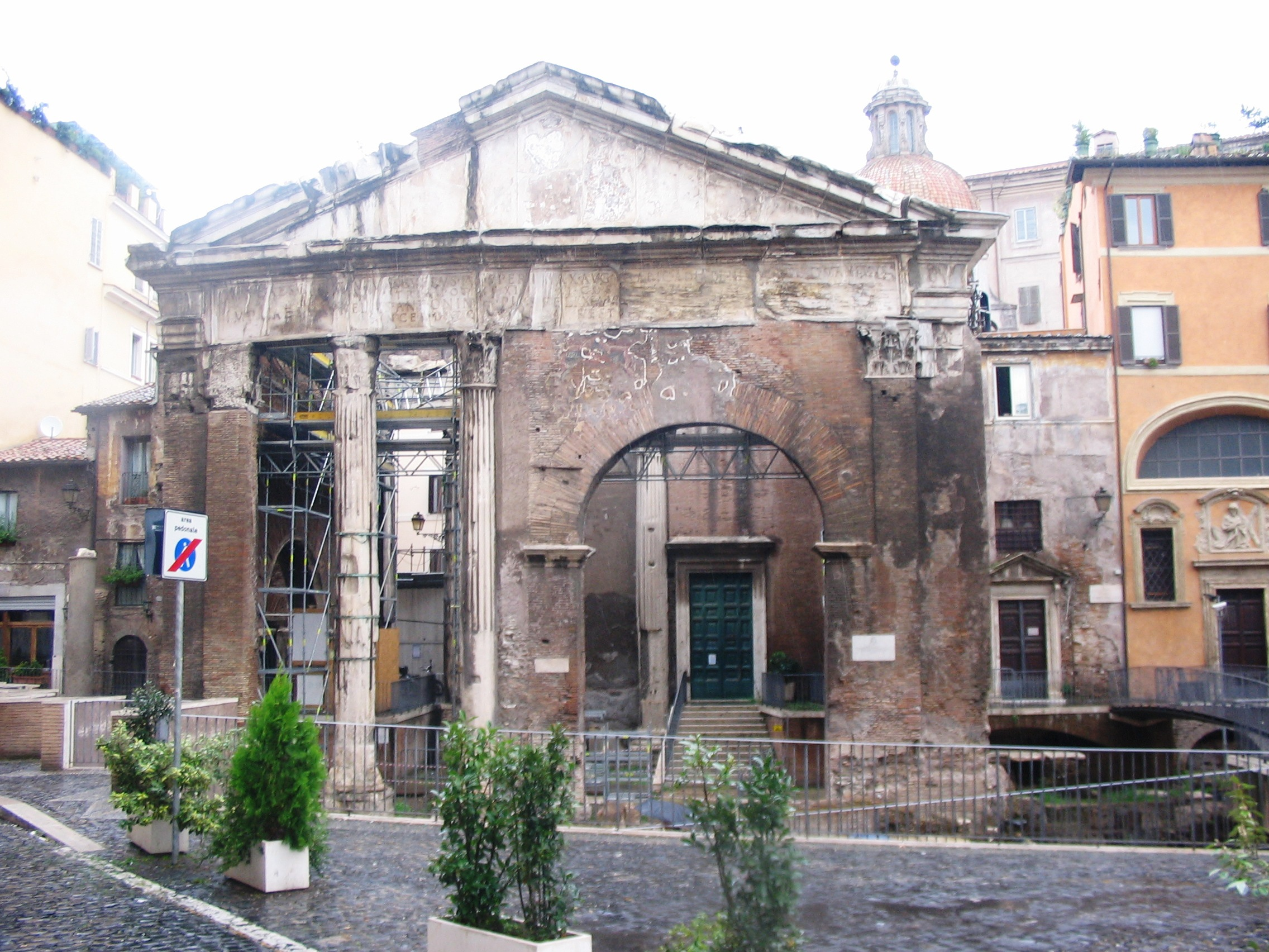 Roma, Portico di Ottavia. 13.10.2005 Mac9